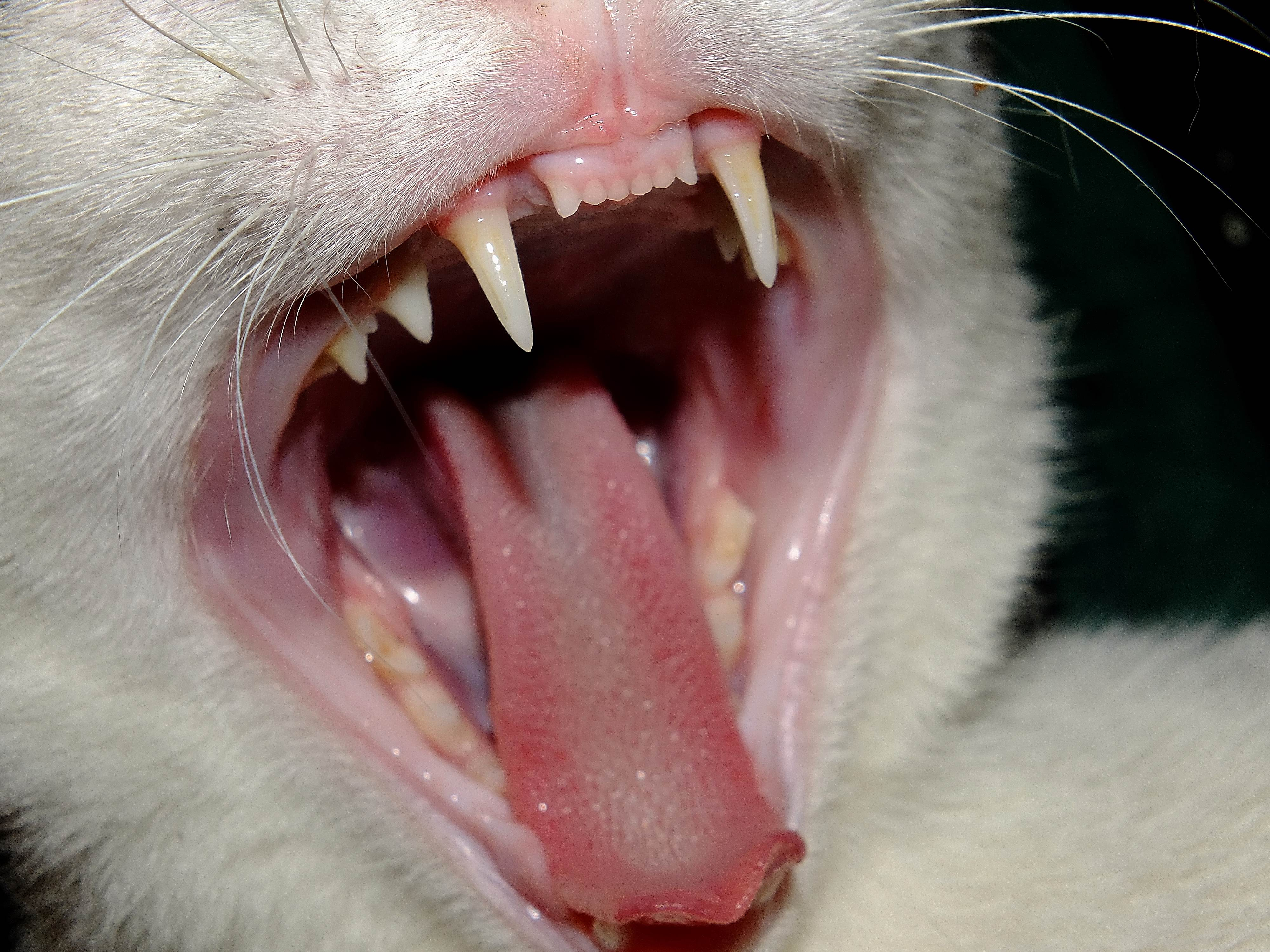 cat's teeth